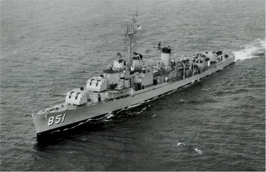 The U.S. Navy destroyer USS Rupertus (DD-851) underway in 1958.